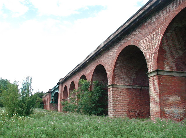 Stamford Bridge Viaduct, Stamford Bridge, East Riding of Yorkshire, England.Viaduct where the York to Beverley railway line crosses the River Derwent, west of Stamford Bridge. The high viaduct consists of 15 brick arches and an iron span above the river. The railway was proposed by George Hudson "the Railway King" who lived at Londesborough Hall just north of Market Weighton. The track between York and Market Weighton opened on 3rd October 1847 but the continuation of the line to Beverley was delayed until 1st May 1865. This was due largely to Hudson's downfall after the collapse of the over-inflated railway share price when he was accused of corruption, bribing MPs and selling land he did not own. Hudson left Londesborough in disgrace and was imprisoned in York Castle for debt in 1865. The line closed to passengers in November 1965 after Richard Beeching's 1962 report on the viability of the railways, but locals have always argued that this was a mistake and to this day there is an ongoing campaign to have the railway reopened.